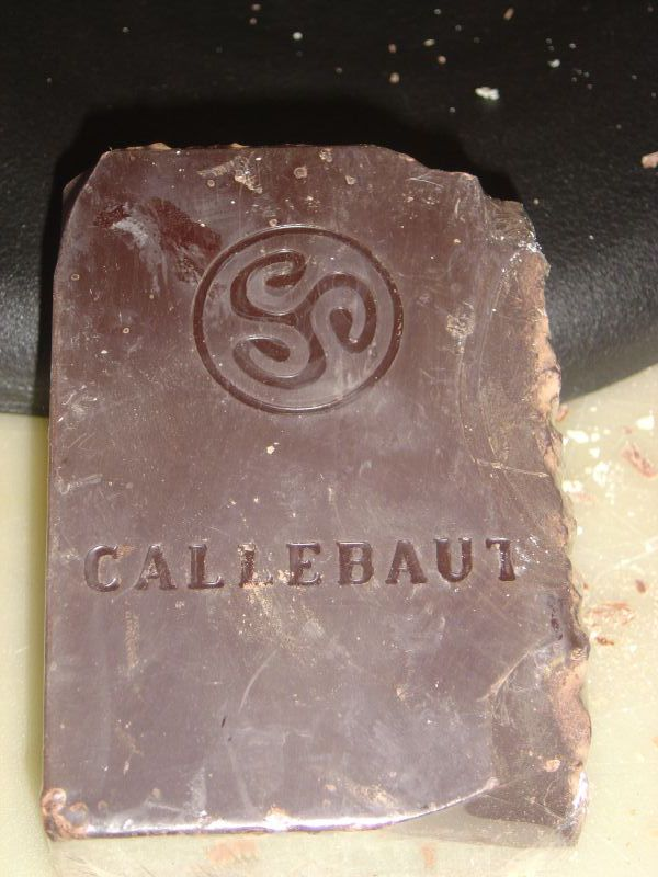 Callebaut cherry chocolate bar